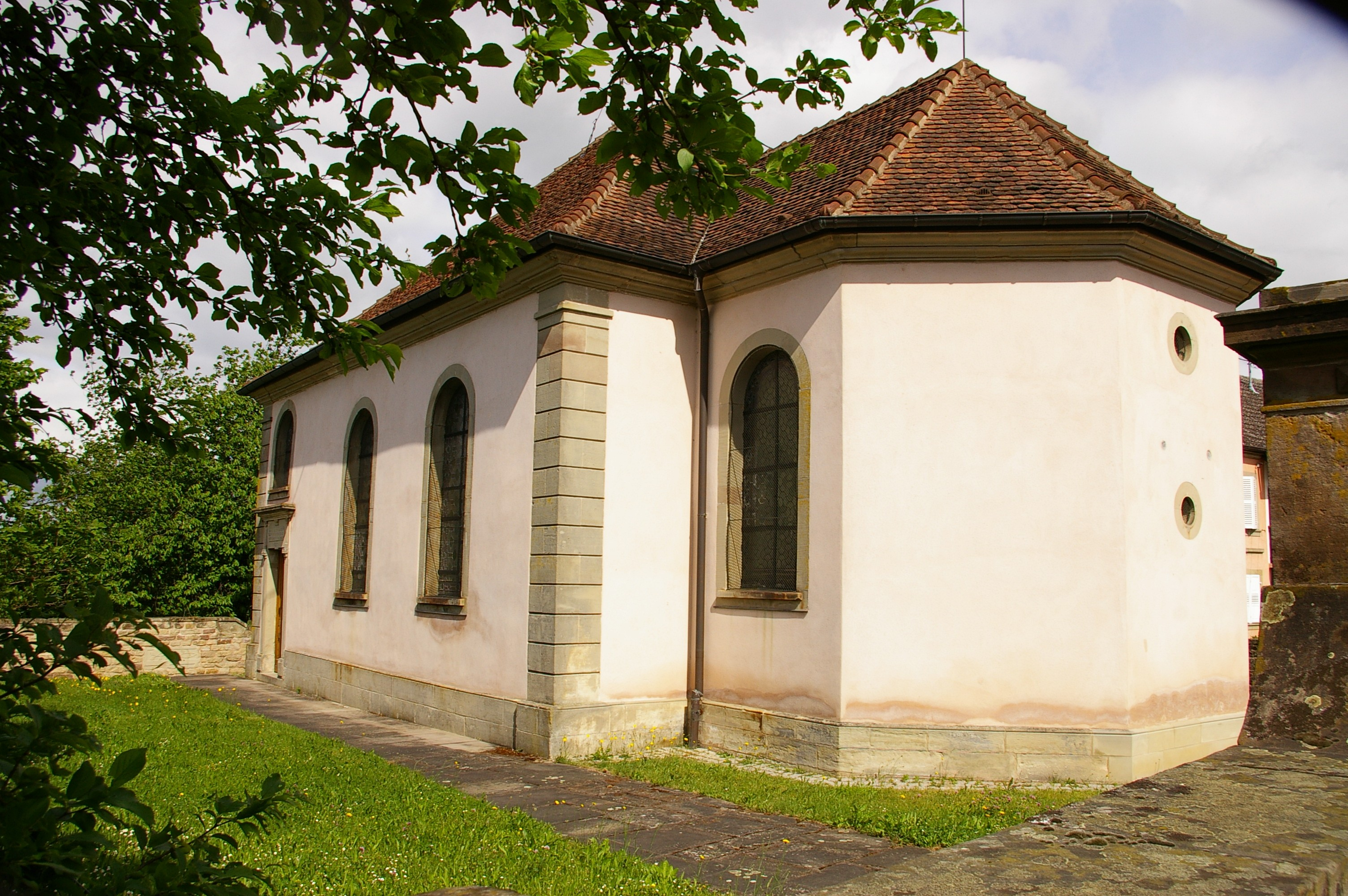 Synagogue de Struth